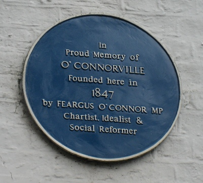 Plaque commemorating Feargus O'Connor at Heronsgate, Hertfordshire